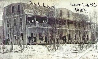 Birch Lodge (Main Lodge), Trout Lake Michigan